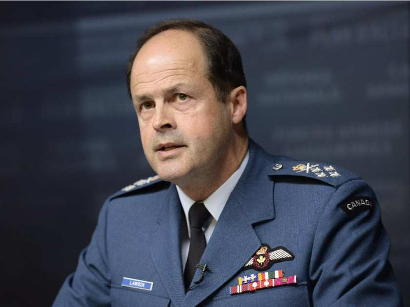 General Thomas Lawson speaking at press confrence